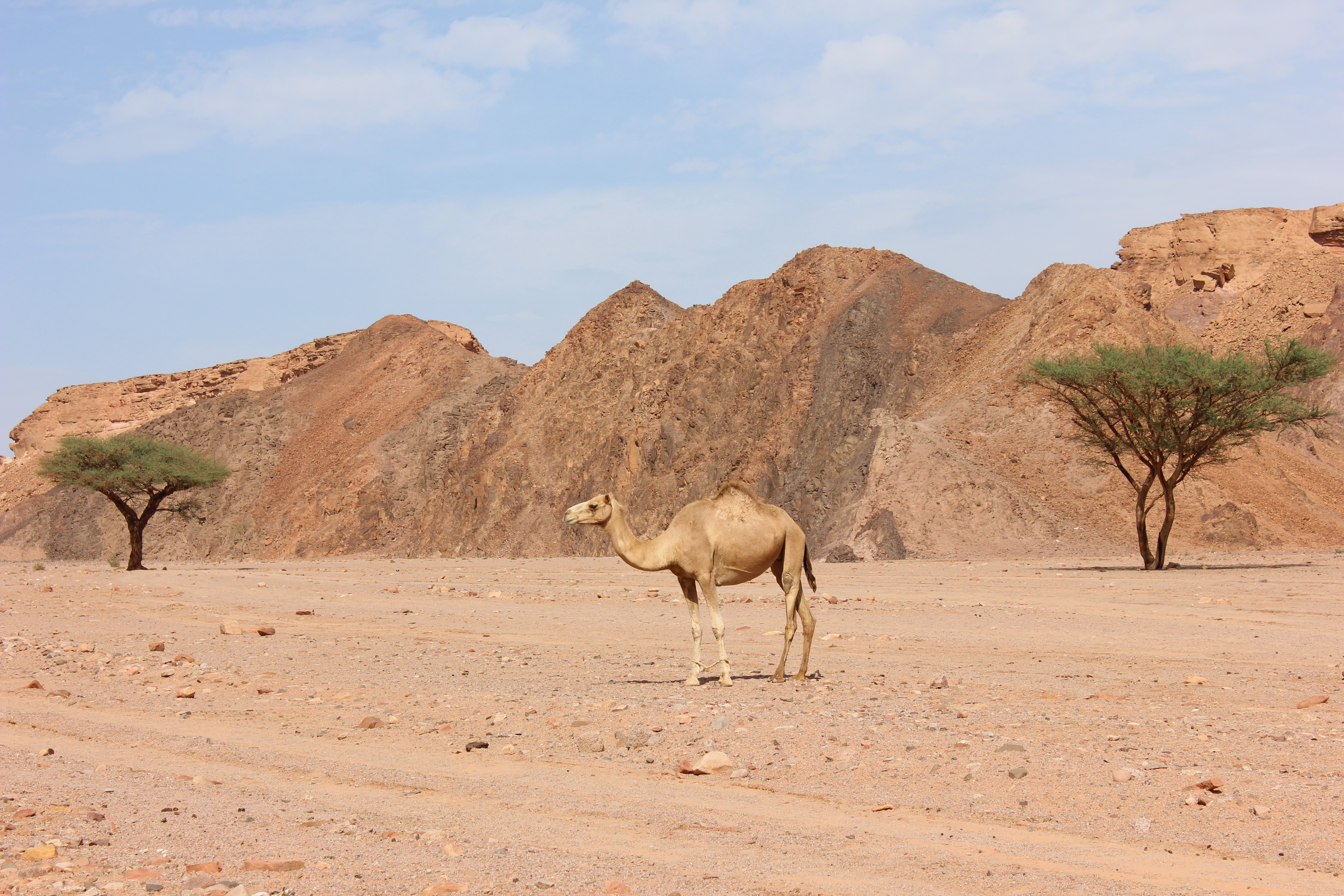 Camel in Disco Tower, Nuweibaa, South Sinai, Egypt.